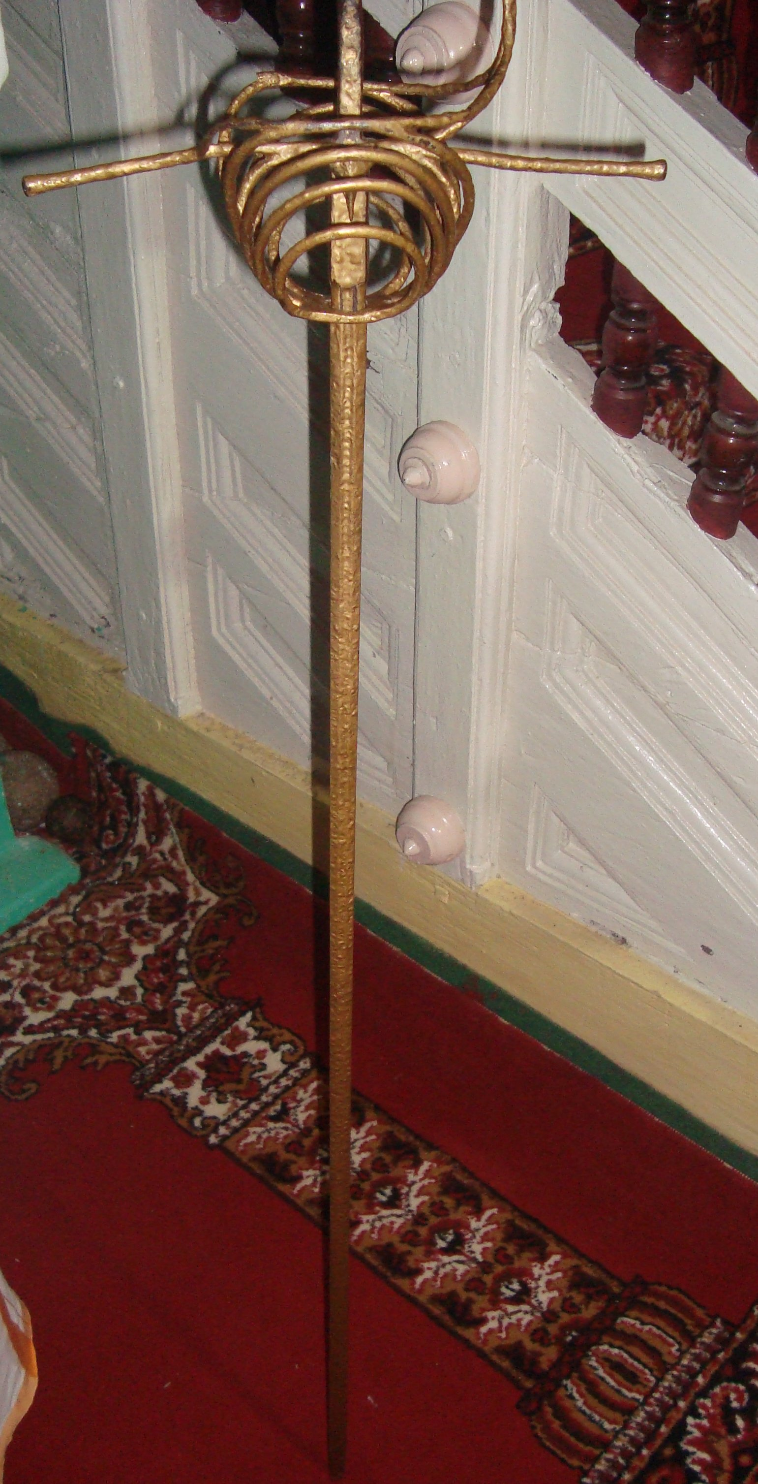 The sword used by Kunjali Marakkar, preserved at the Kottakkal Juma Masjid, Kottakkal, Vadakara